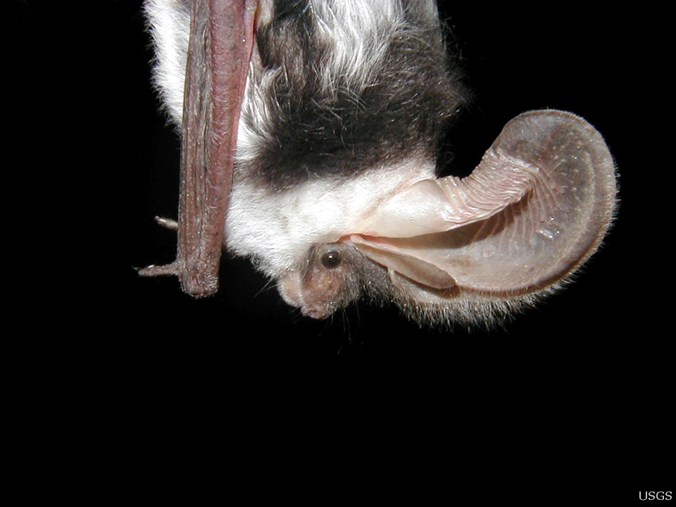 Title: Side View of Insect-Eating Spotted Bat (Euderma maculatum) in New Mexico Description: This spotted bat, native to western North America, is a hibernating insect-eating bat that may be at risk as the disease white-nose syndrome moves westward. Location: Date Taken: Photographer: Paul Cryan , U.S. Geological Survey Usage: This image is public domain/of free use unless otherwise stated